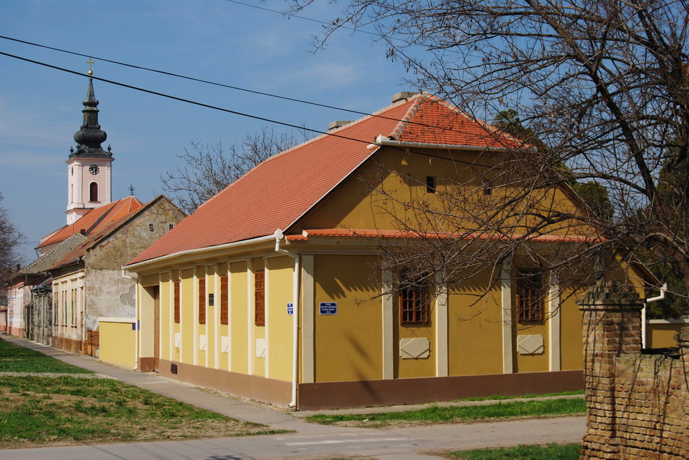 Homeland Museum „Glavaševa kuća” in Novi Bečej